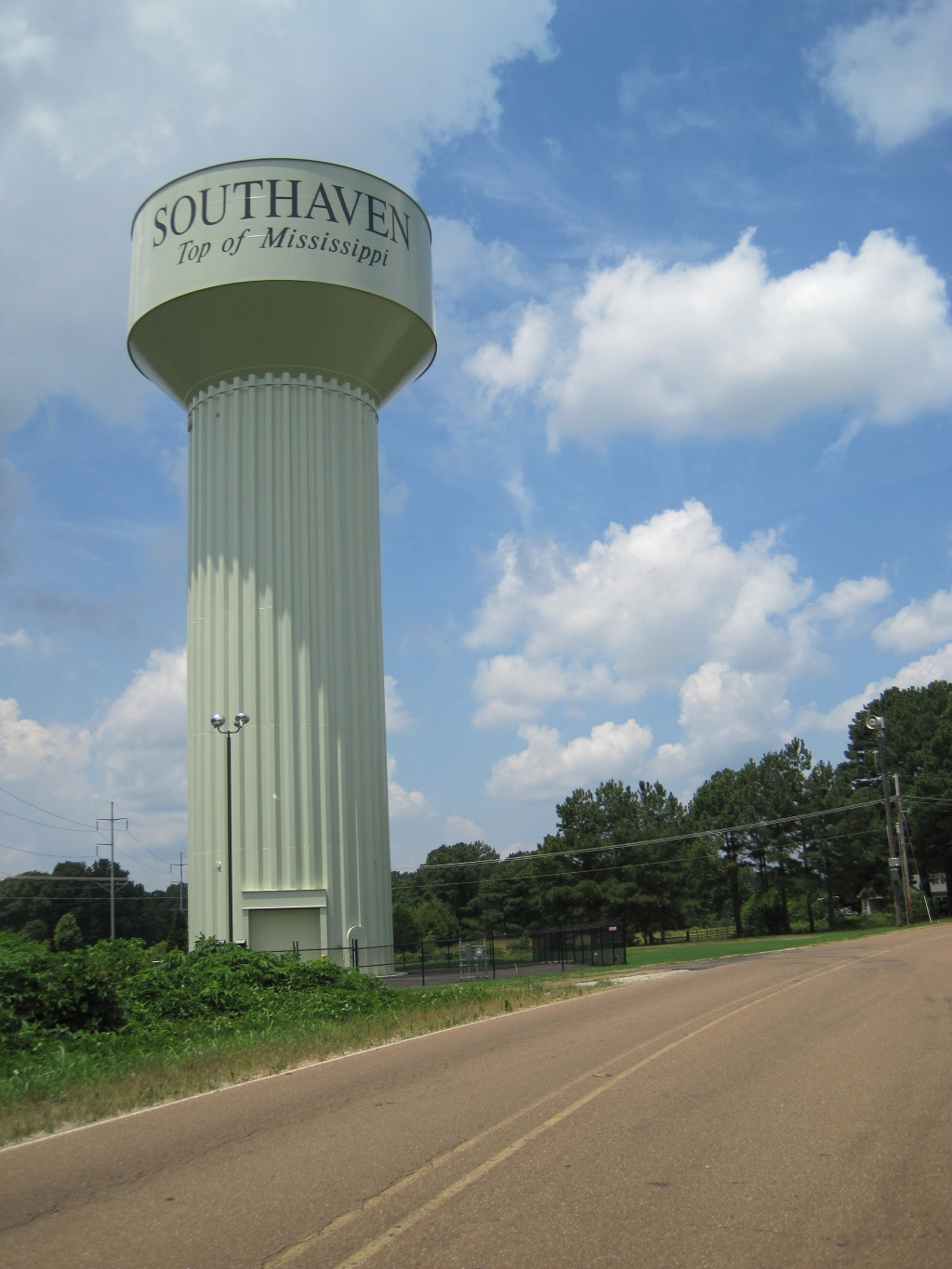 Southaven "Top of Mississippi" Watertower on Starlanding Road in Southaven, Mississippi